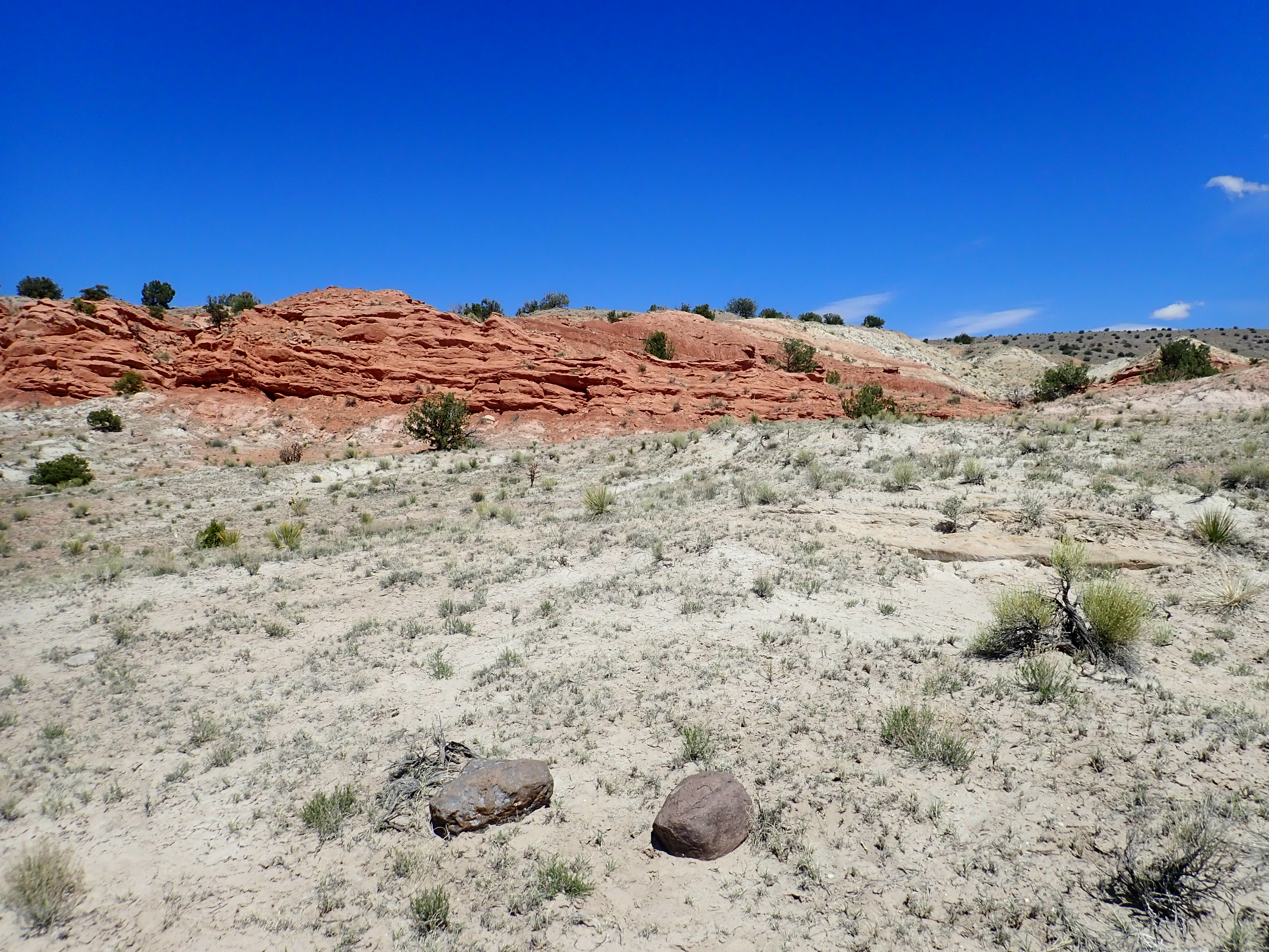 Both the red outcrop and the white foreground sediments are part of the Galisteo Formation, an Eocene formation in New Mexico. This photograph was taken west of Espinaso Ridge.